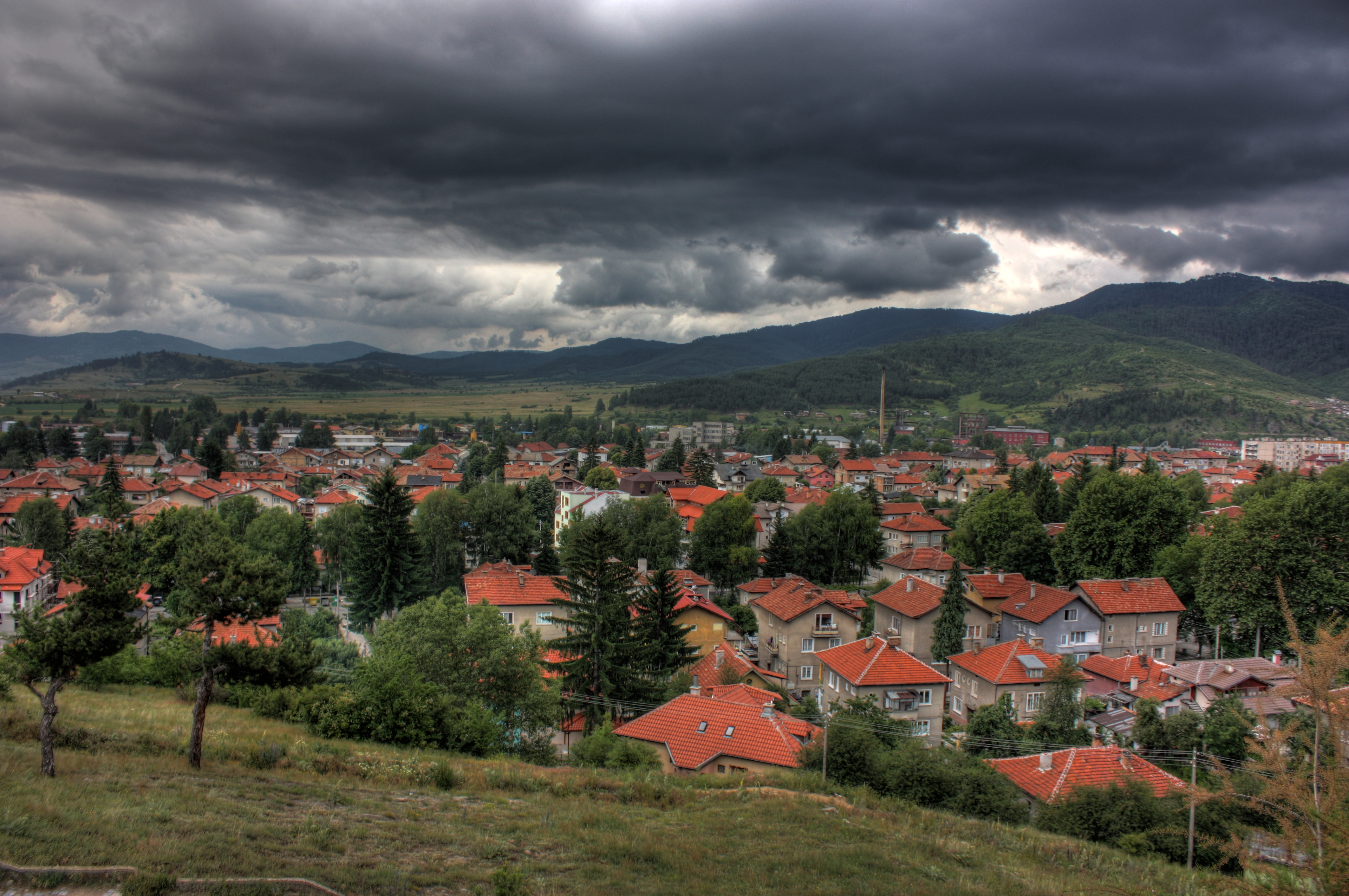 Panoramic view of the Bulgarian city of Velingrad. Processed with HDR technique. Velingrad...